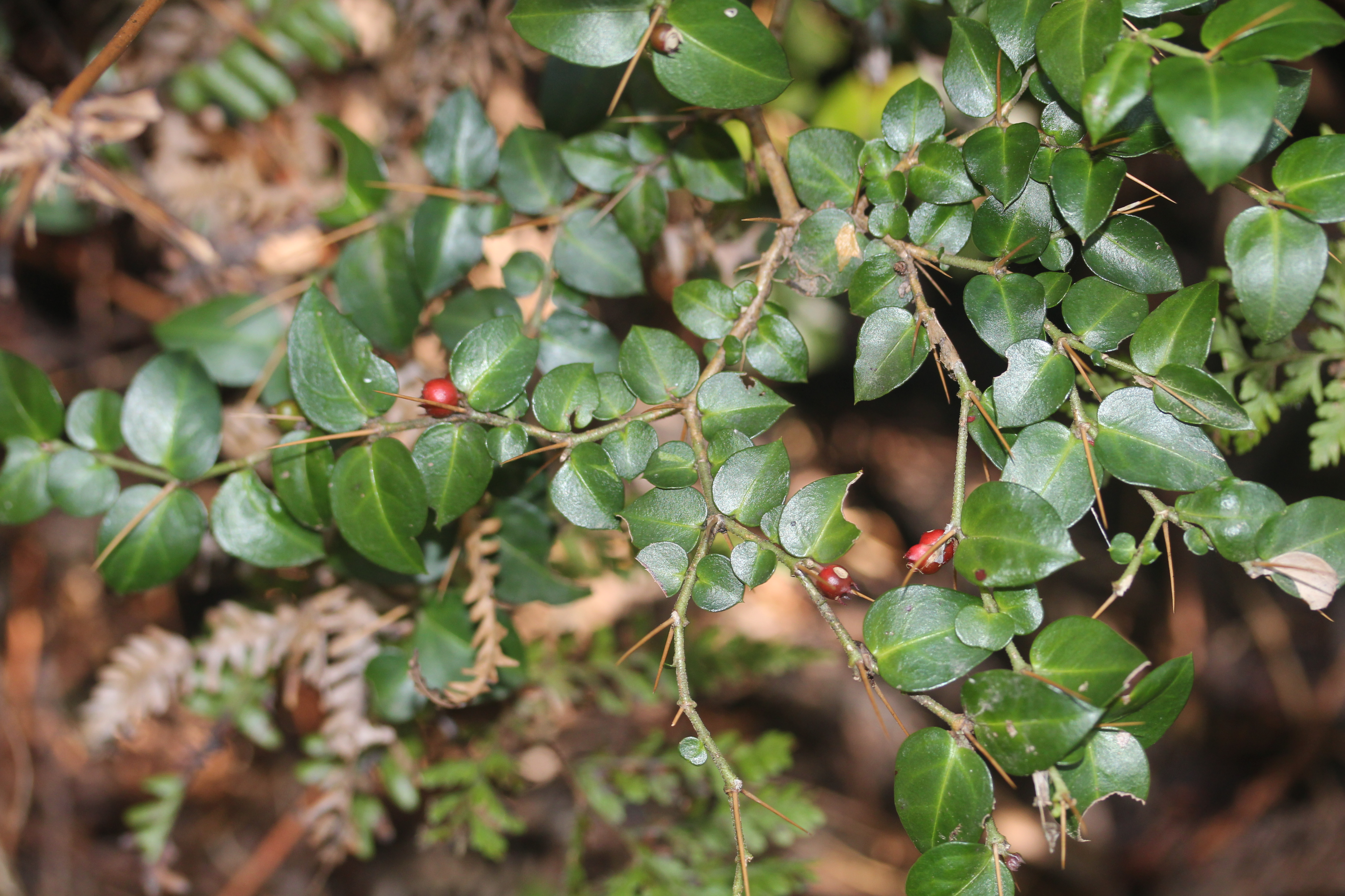 Damnacanthus indicus in Mount Tengura, Owase, Mie prefecture, Japan.